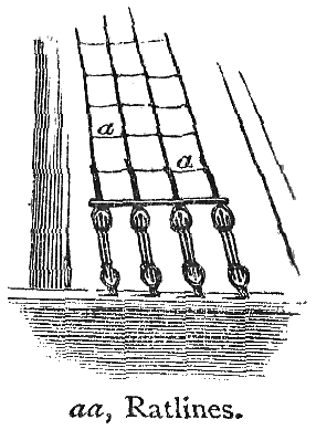 Illustration from 1908 Chambers's Twentieth Century. Ratline, n. one of the small lines or ropes traversing the shrouds and forming the steps of the rigging of ships.